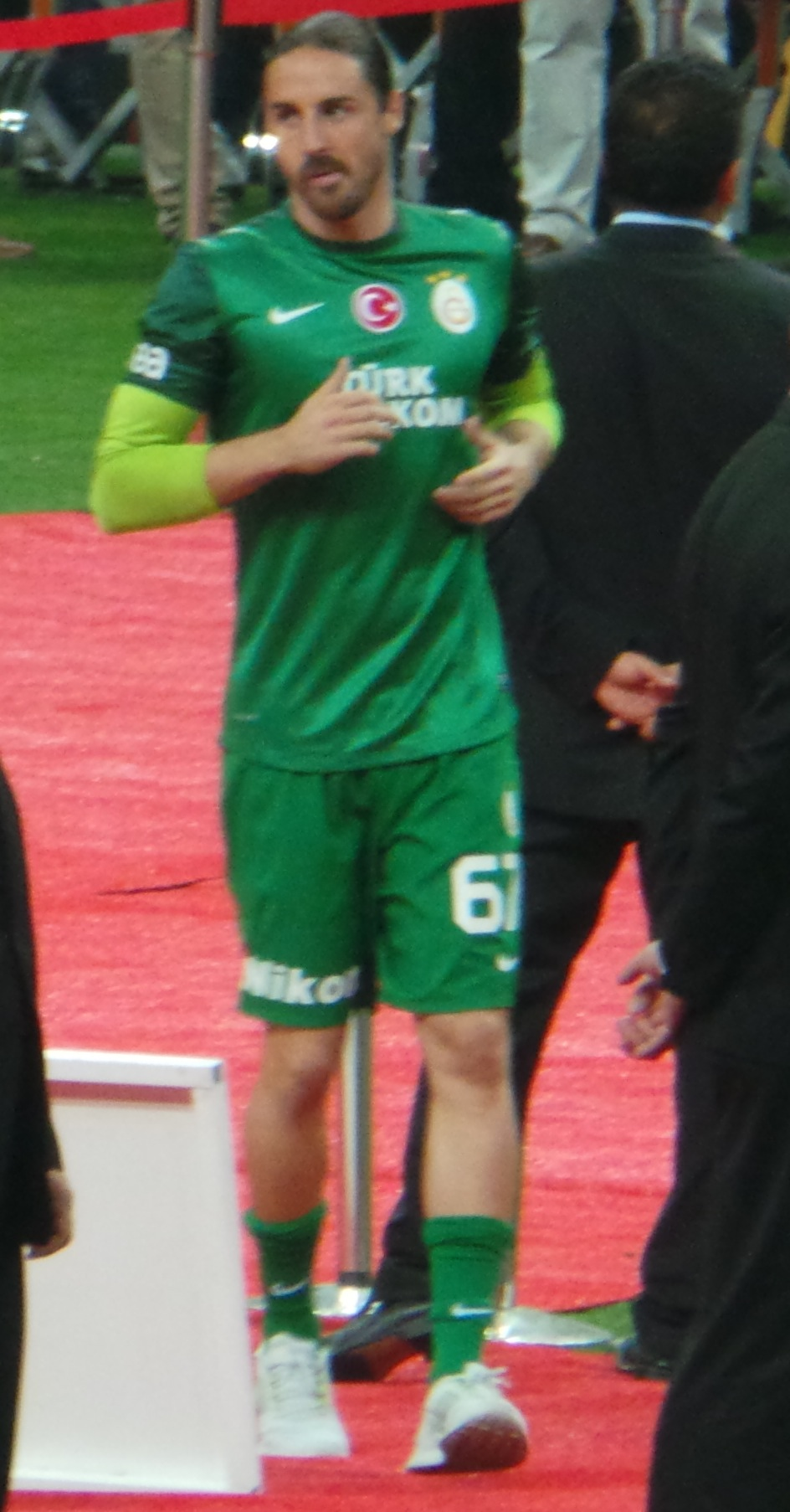 Aykut with Galatasaray